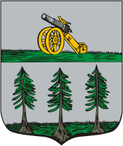 Elnya (Smolensk oblast), coat of arms (1780)